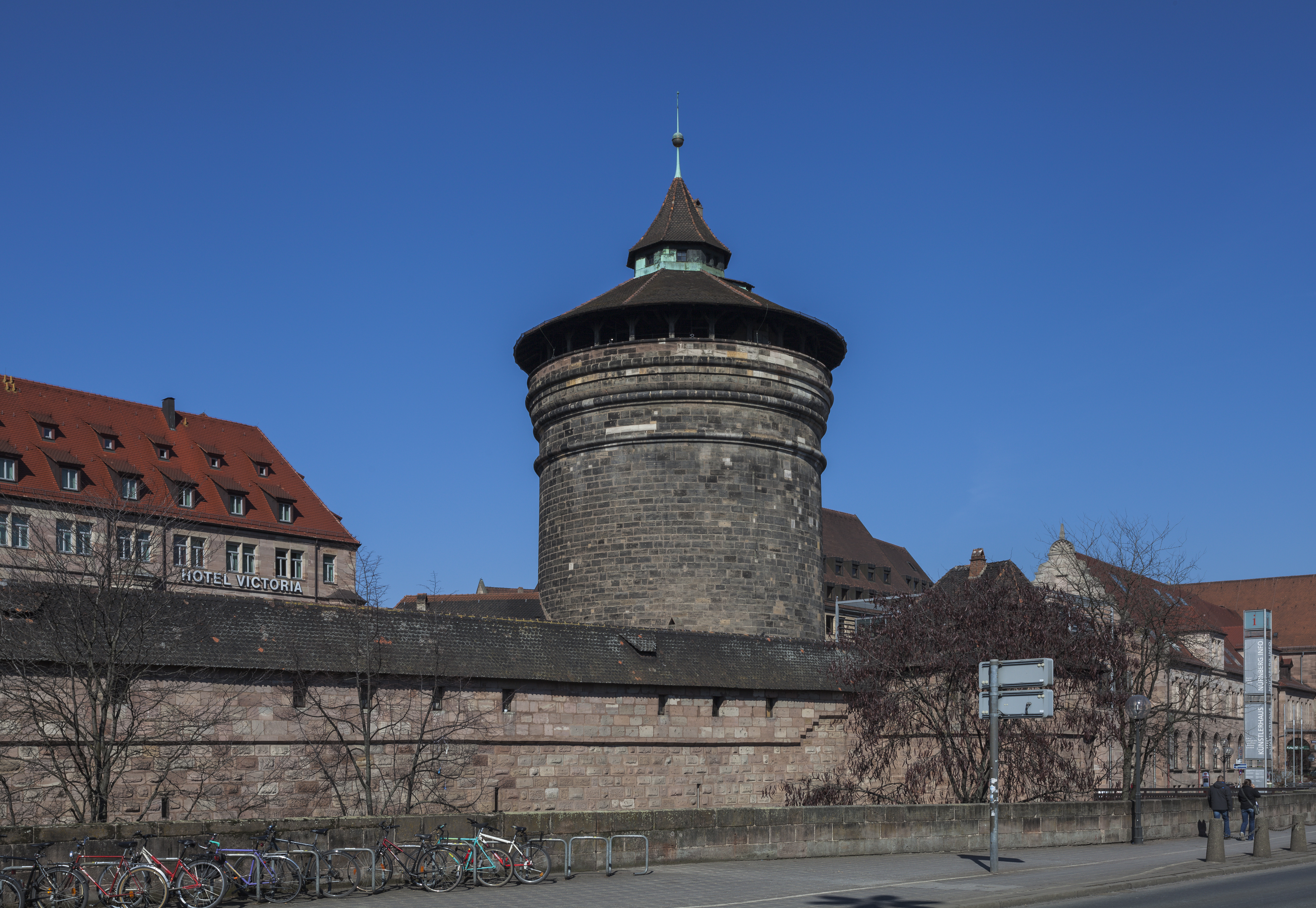 City walls, Nuremberg, Germany